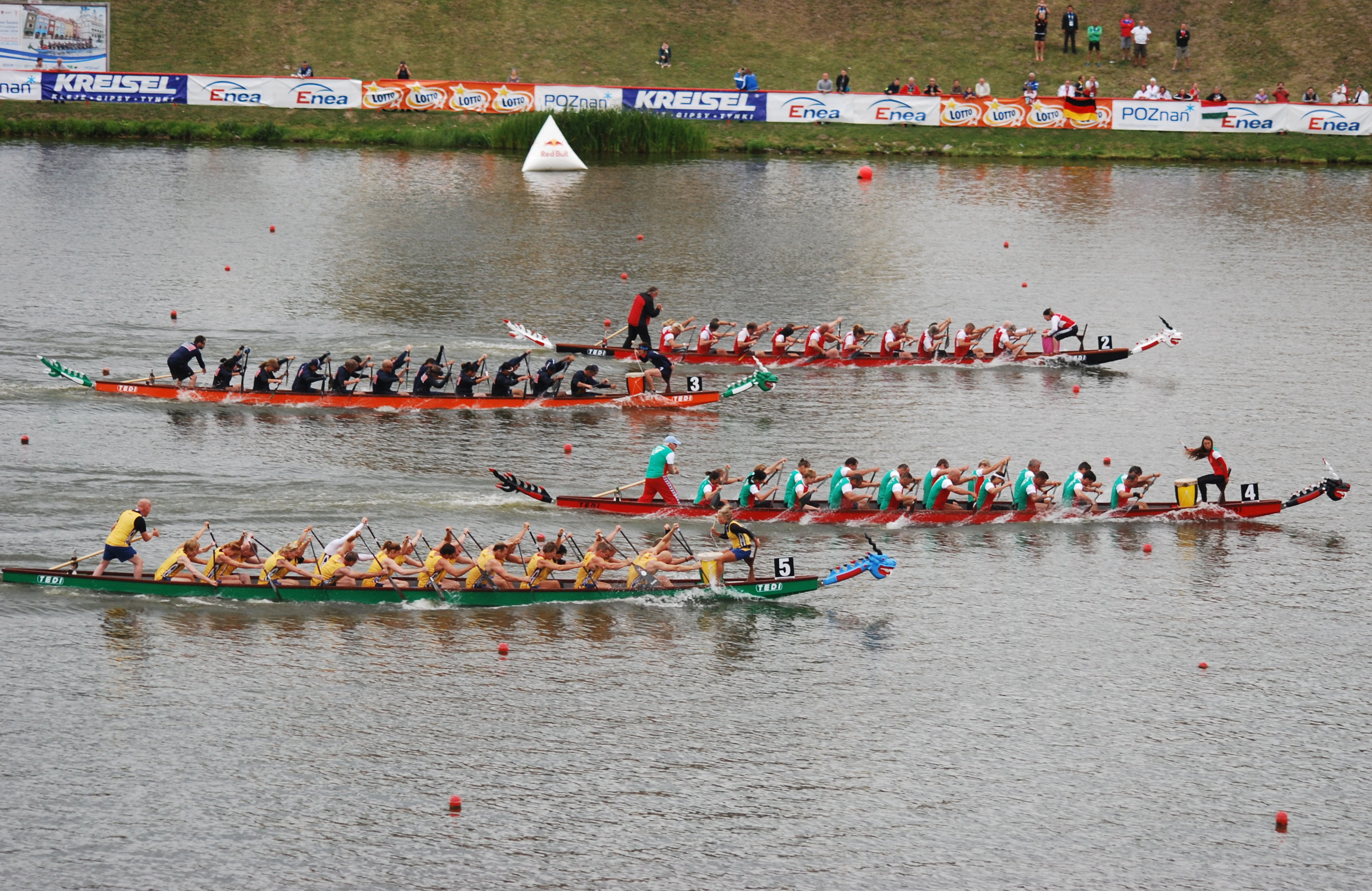 Master (40+) at the ICF World Championships in Dragon Boating 2014 in Poznan, Poland, 200 meter races.